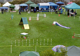 Dog agility field part 2 of 2.- Shows agility equipment set up on a competition field. To go with the dog agility entry.